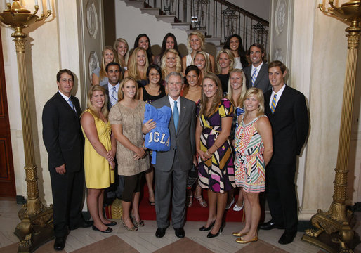 The University of California-Los Angeles Bruins women's water polo team, including 2008 Summer Olympics participants Natalie Golda and Jaime Hipp, are honored at the White House by President of the United States George W. Bush for their winning the 2008 National Collegiate Athletic Association Division I national championship.